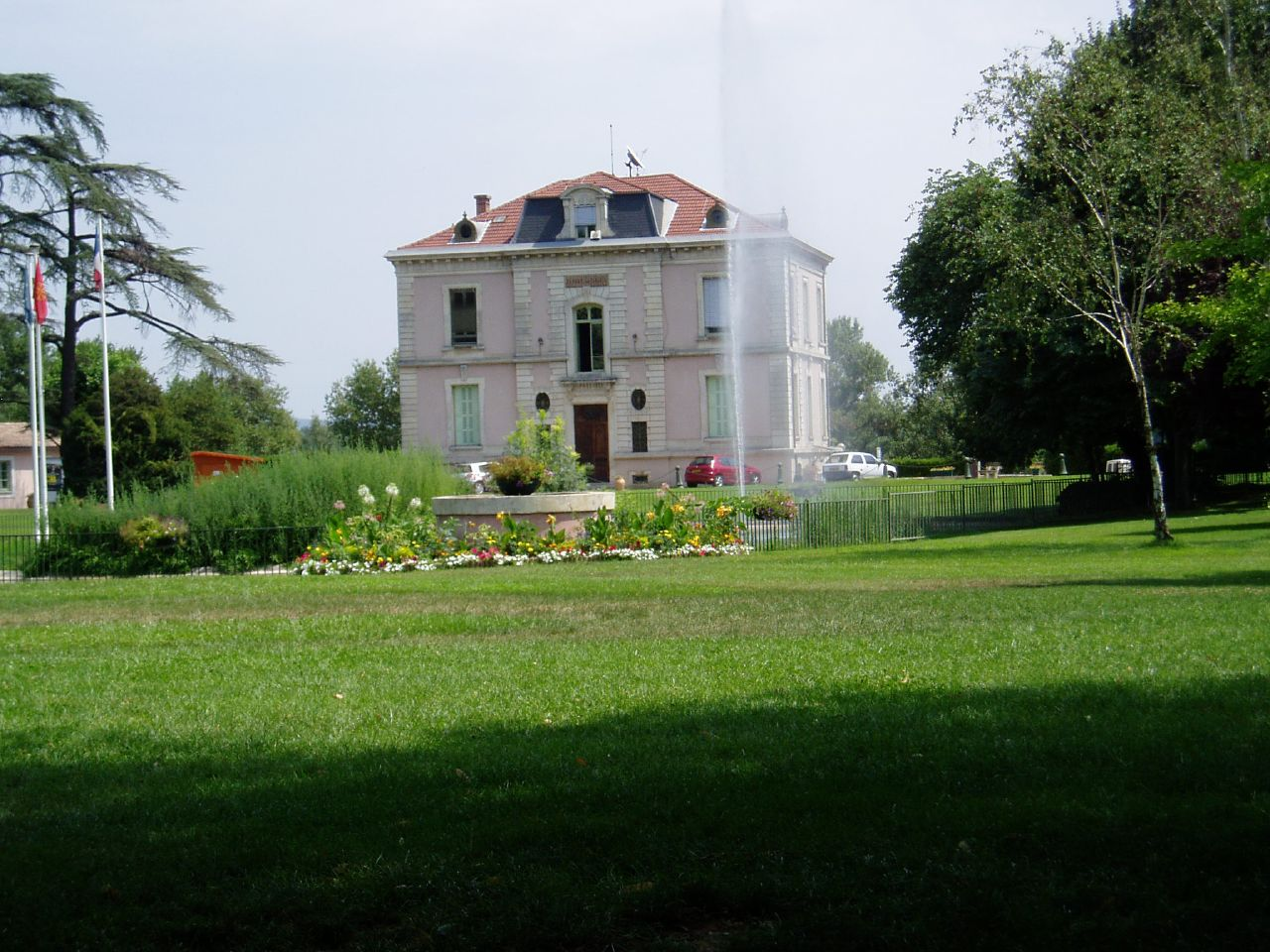 Town hall of Pont-Saint-Esprit